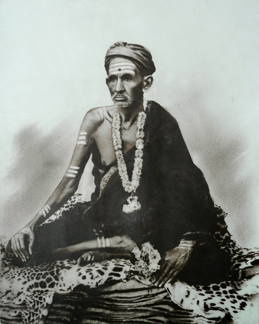 Shri Siddharudha swamiji at hubballi matt